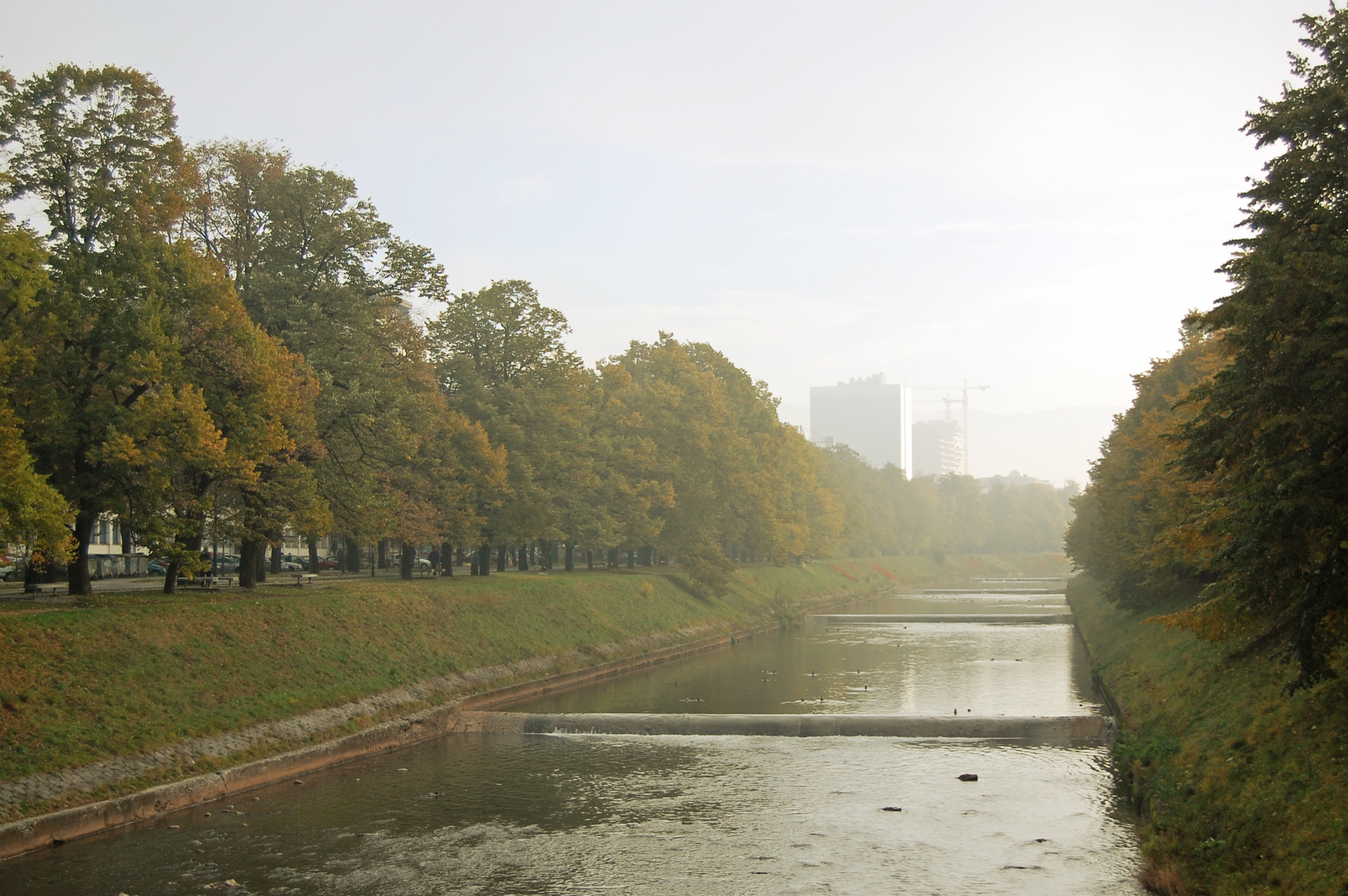 Upstream view of the Miljacka River as seen from the bridge in Hamdije Čemerlića street at Grbavica in Sarajevo